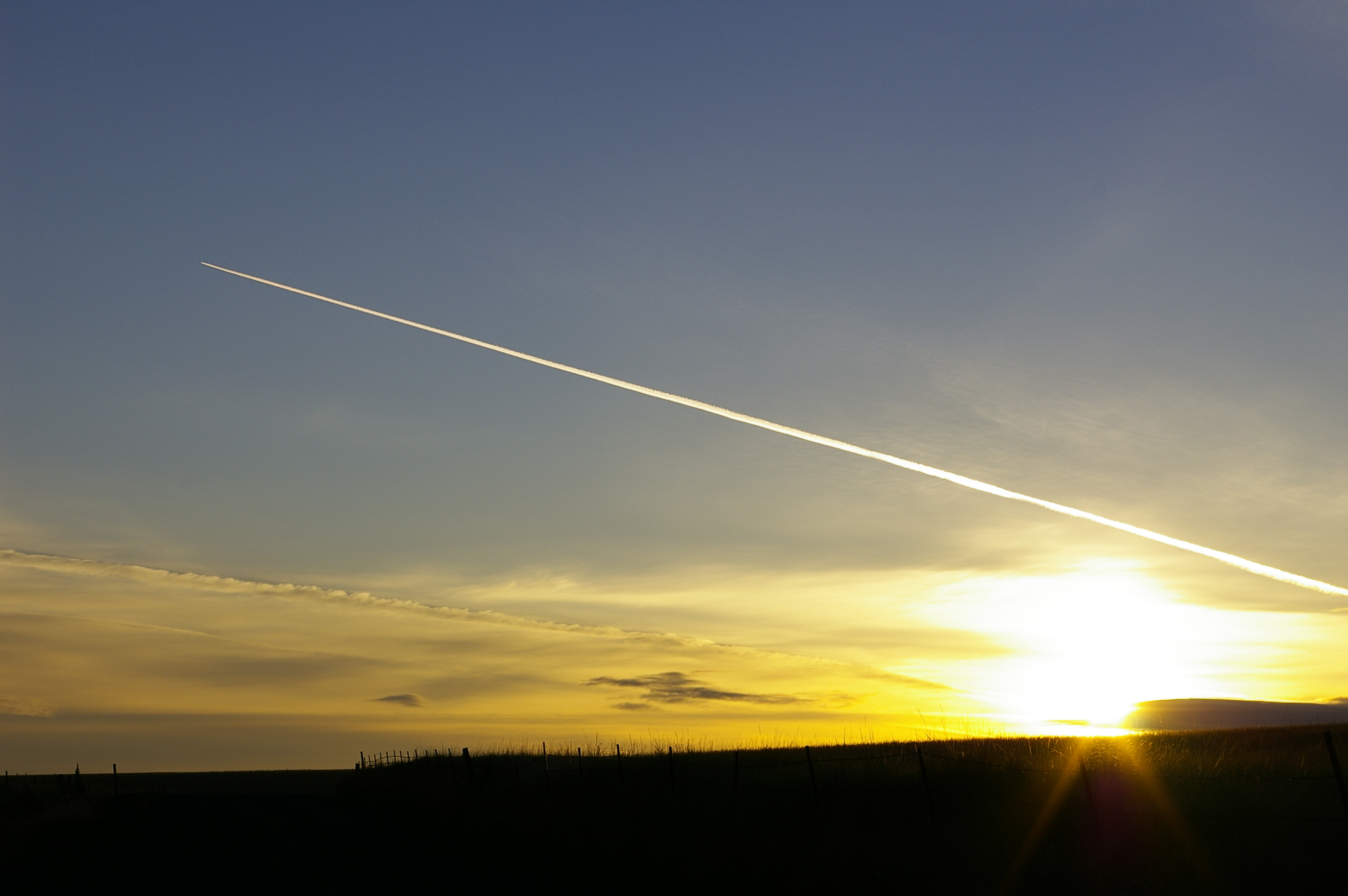 Sunrise in Gilliam County, Oregon, with a jet contrail as well